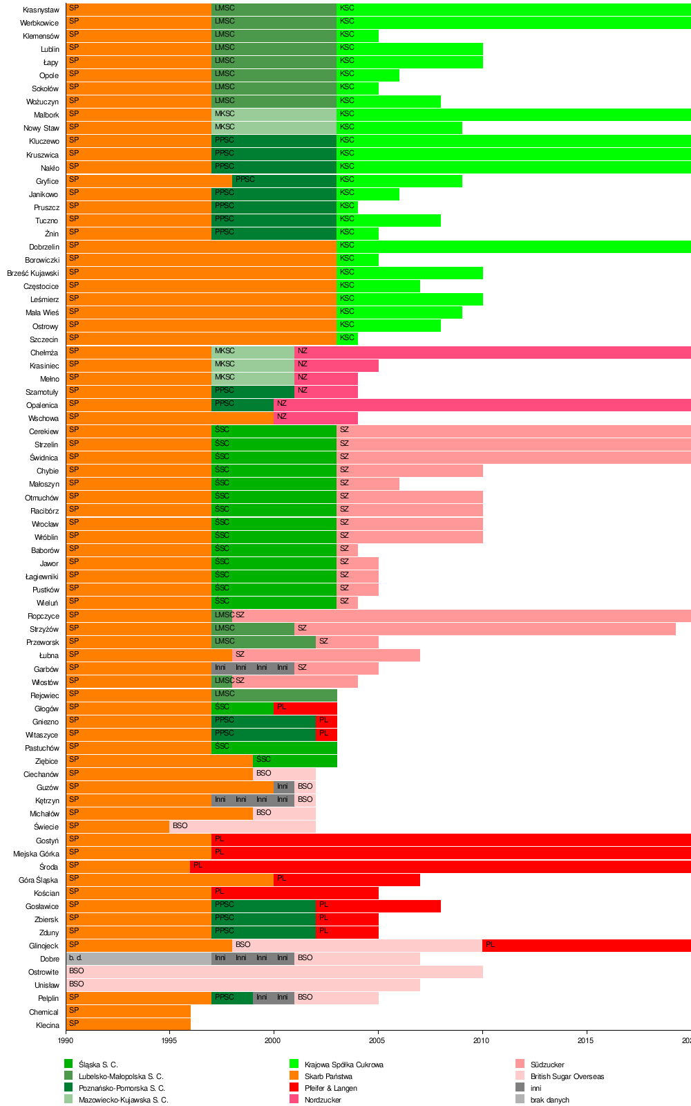 Ownership changes of Polish sugar refineries after 1990.